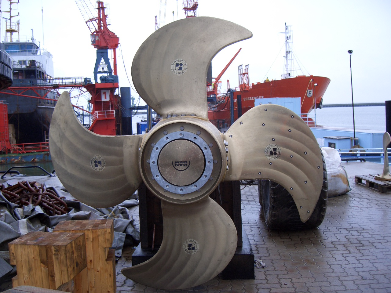 Ship propeller.